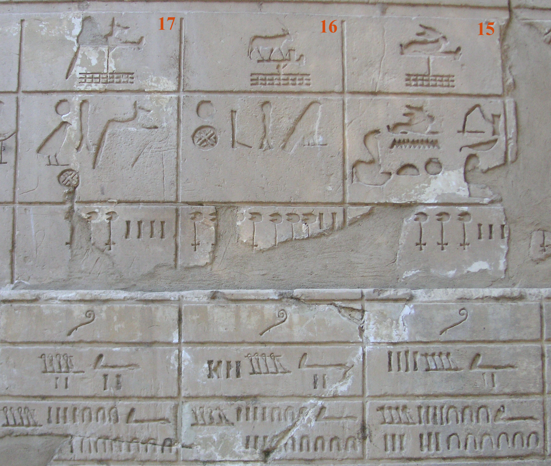 Nome 15 to 17 of Upper Egypt (list of Sesostris I.)